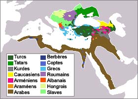 Languages in the ottoman empire